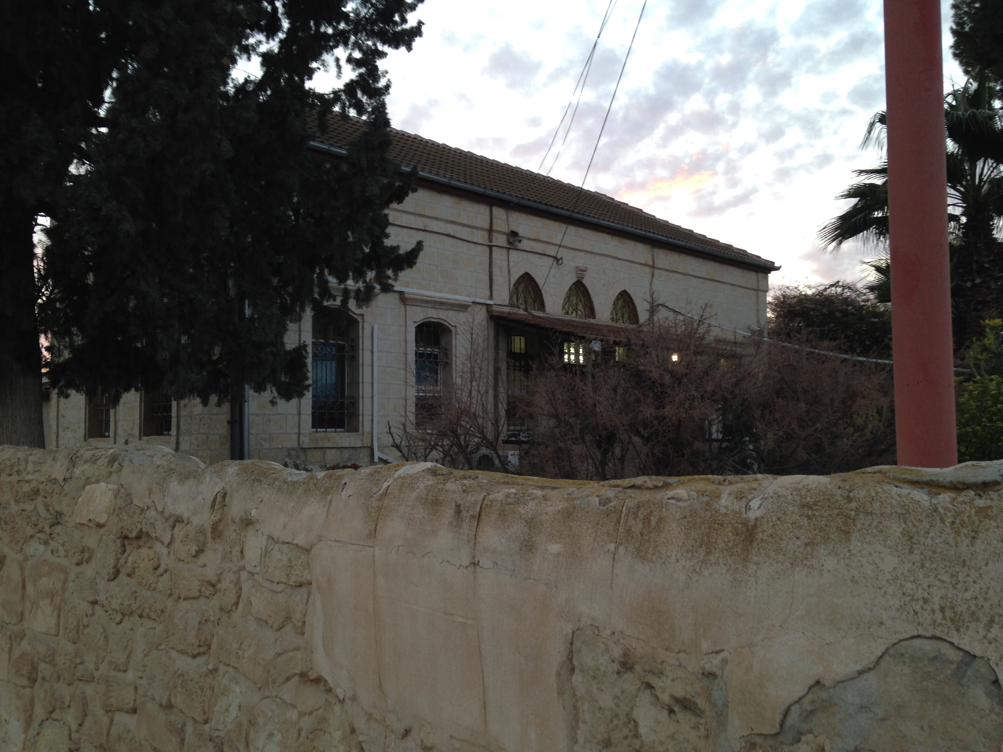 The abandoned mission house BeerSheba Israel